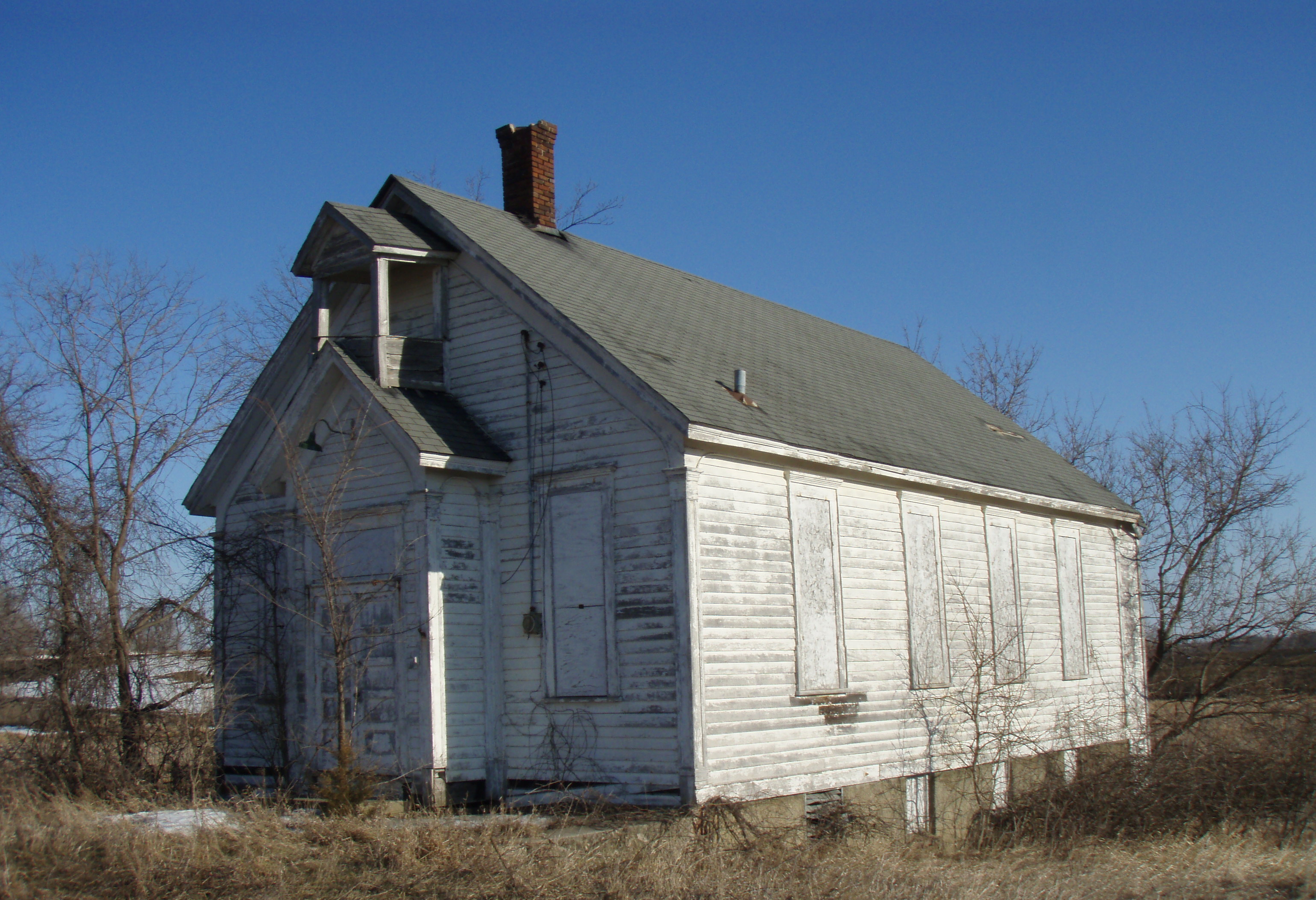 District No. 48 School in Delano, Minnesota. The building, although no longer in use, is listed on the National Register of Historic Places.